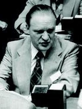 Helmut Epheser, Prof. of Mathematics in Hannover, Hannover 1974